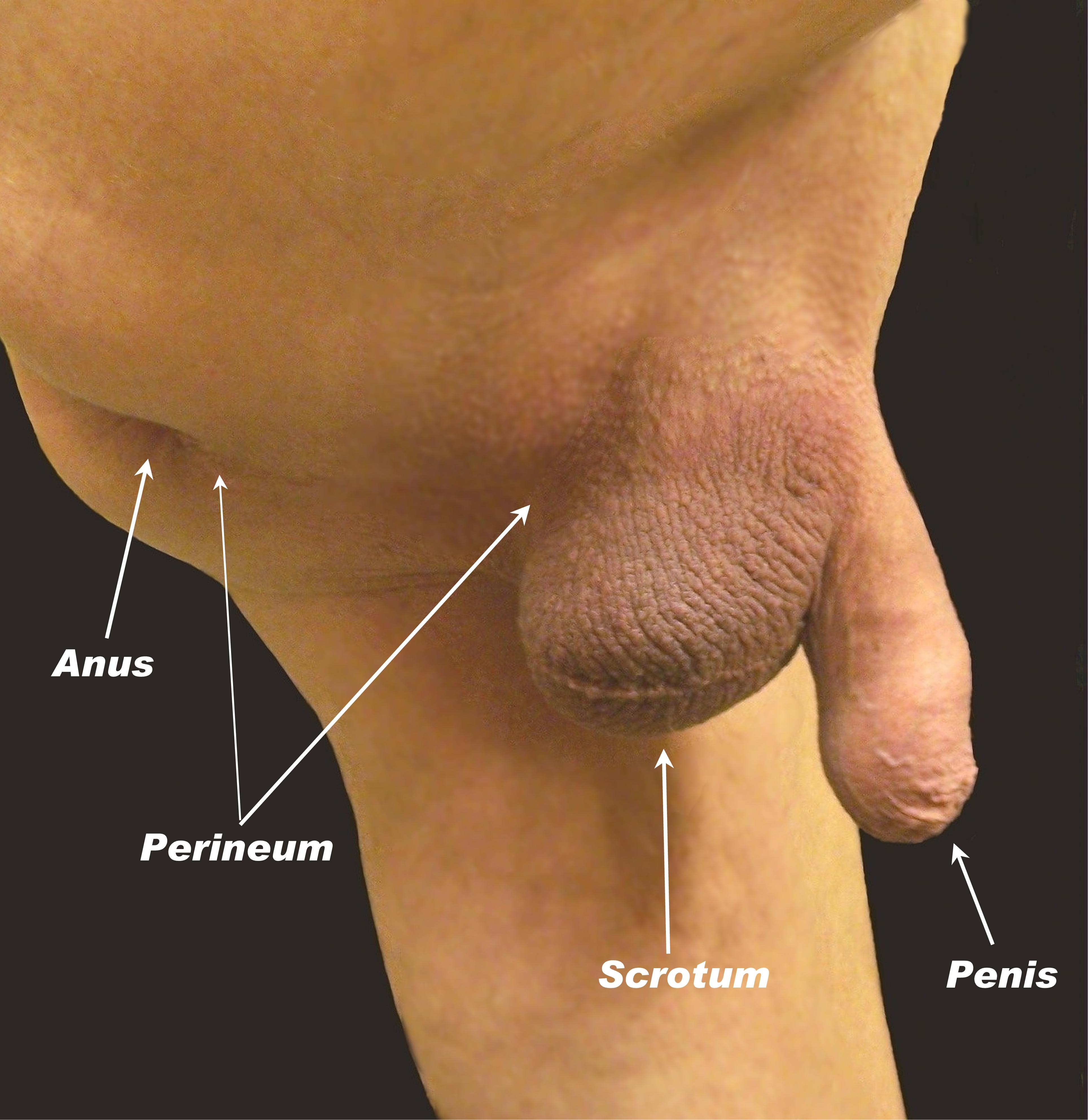 Shaved human penis, scrotum, perineum, and anus with labels